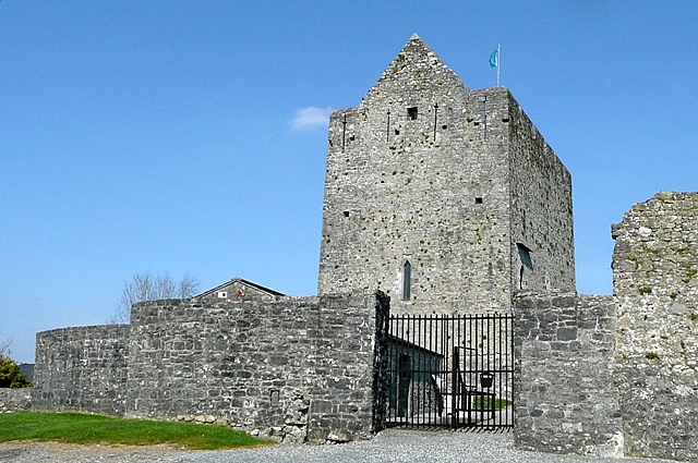 Athenry castle The castle was built by Meiler de Bermingham in the middle of the 13th century, and is very much linked with the medieval town. The castle was restored a few years ago and is open daily during the summer period. There is a lot of information here and here